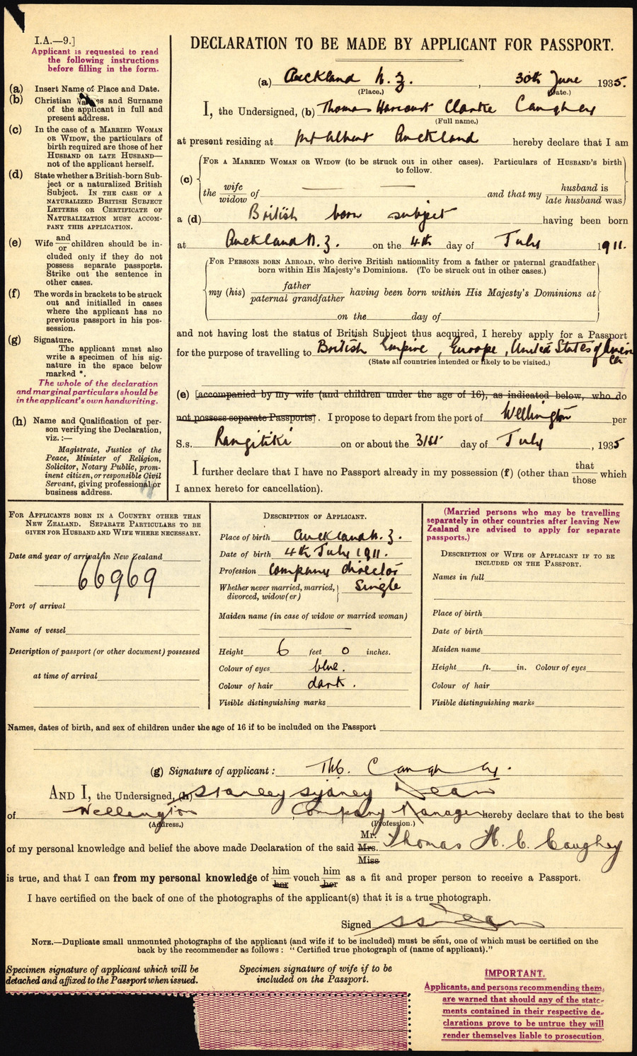 Archives New Zealand Reference: ACGO 8333 IA1 1350 / 15/11/59182